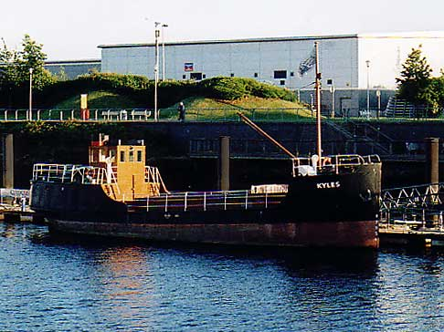 Clyde puffer Kyles at Braehead, Glasgow 2004. photograph taken by User:Dave souza Technically being to long the MV Kyles is classed as a coaster Captioned As { }